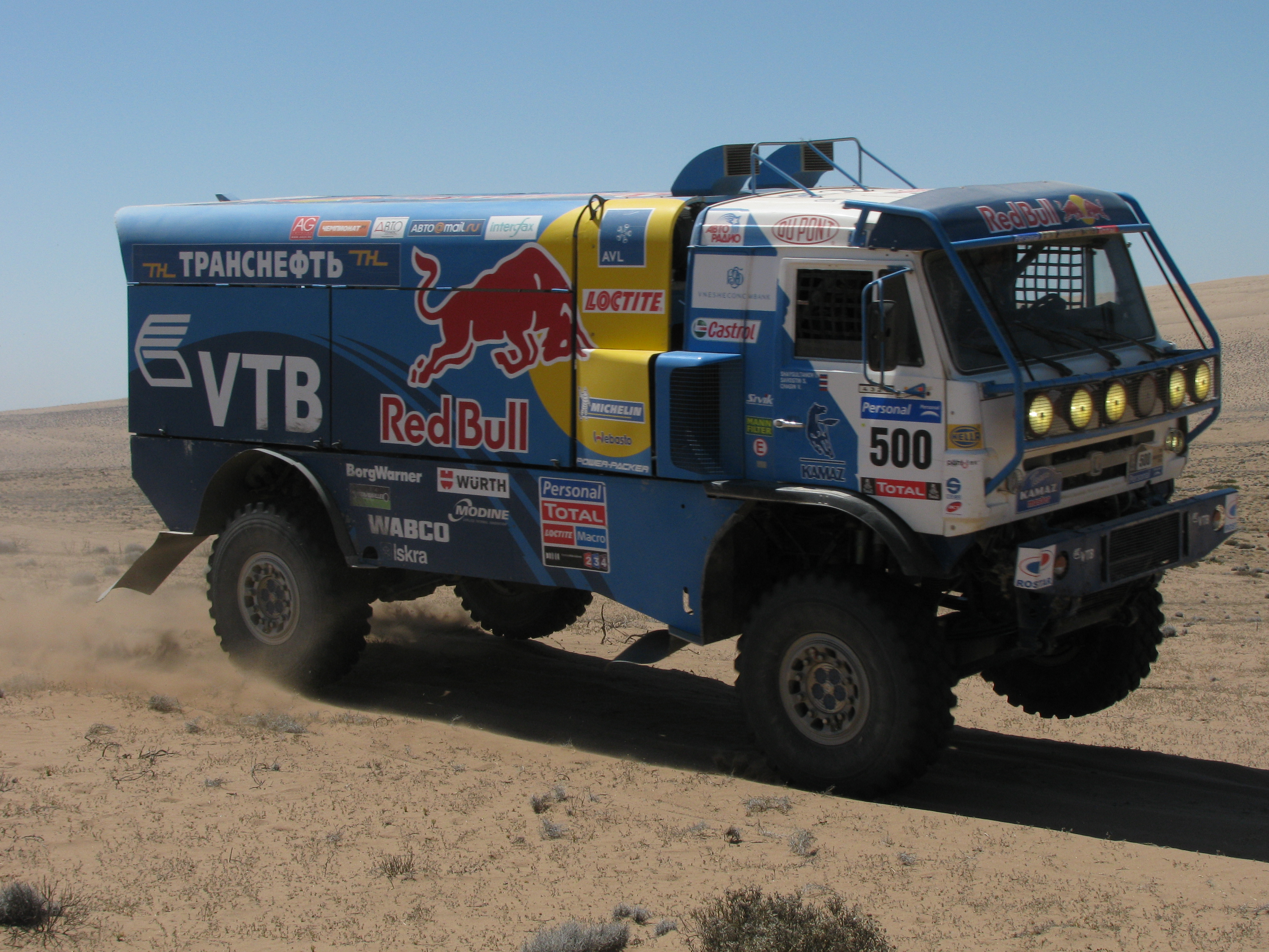 Kamaz 43269, Dakar 2011 Copiapó VLADIMIR CHAGIN (RUS) SERGEY SAVOSTIN (RUS) ILDAR SHAYSULTANOV (RUS)